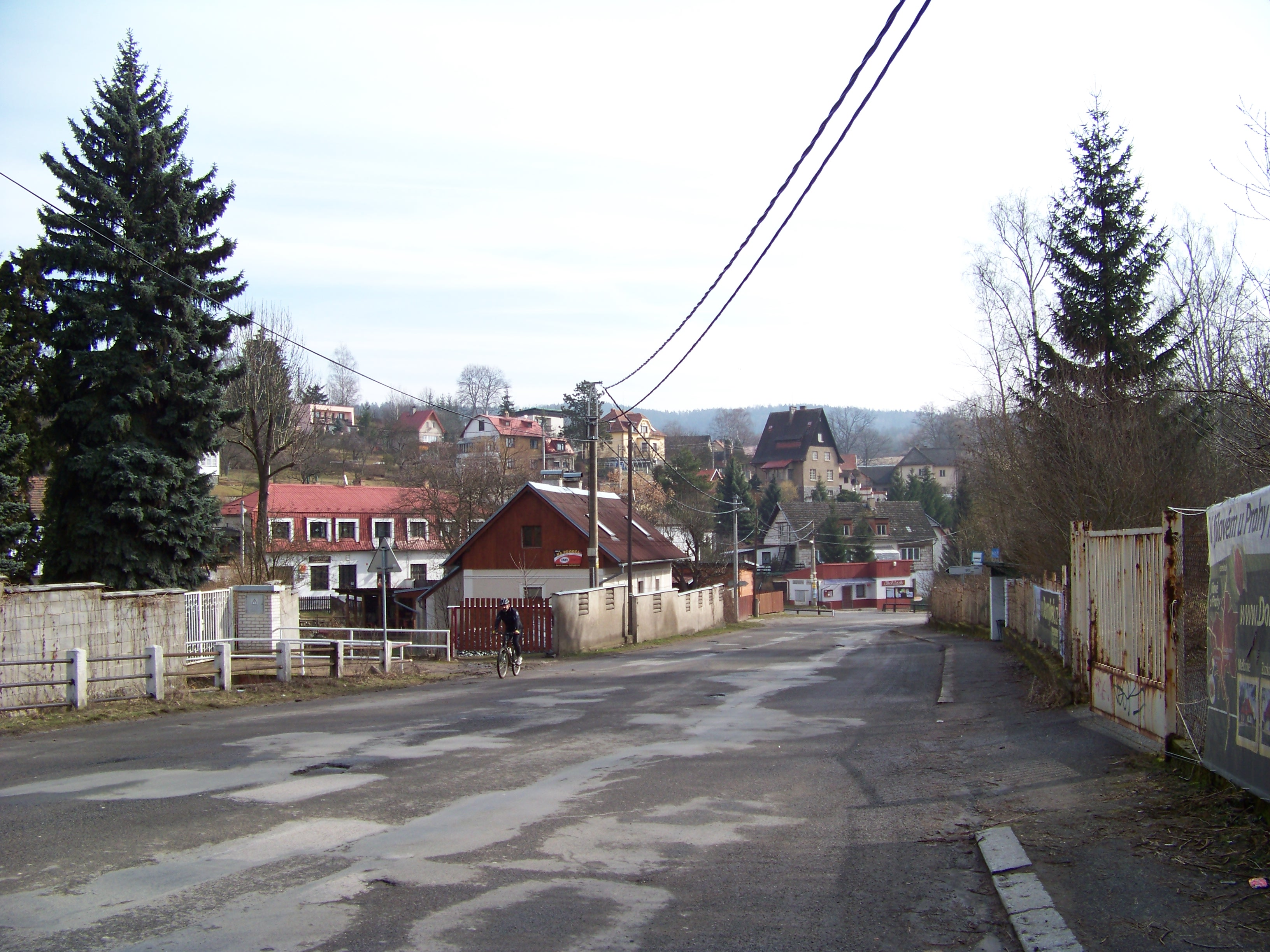 Jílové u Prahy-Borek and Kabáty, the Czech Republic. View from a train.